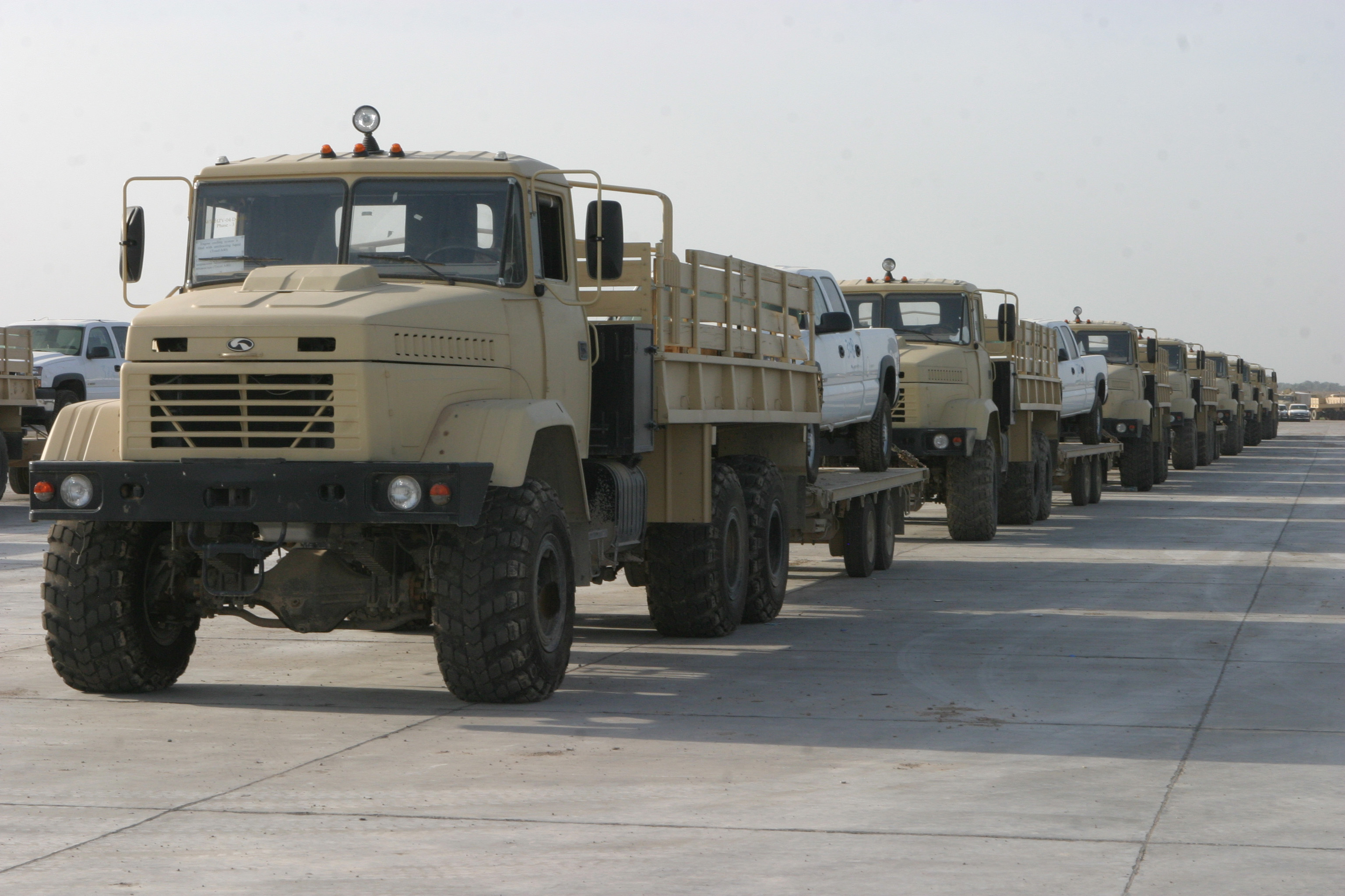 A convoy of 1st Motor Transport Regiment, 1st Iraqi Army Division KrAZ-6322 (KrAZ - Kremenchugsky Avtomobilny Zavod) trucks are staged and carrying Chevrolet Silverado trucks at Camp Habanniya, Iraq, Oct. 28, 2006.